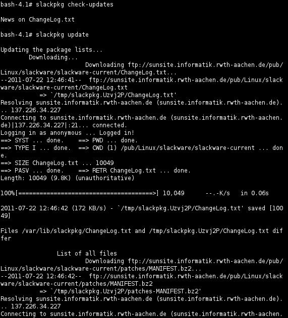 Slackpkg, checking changes logs & updating packages list.